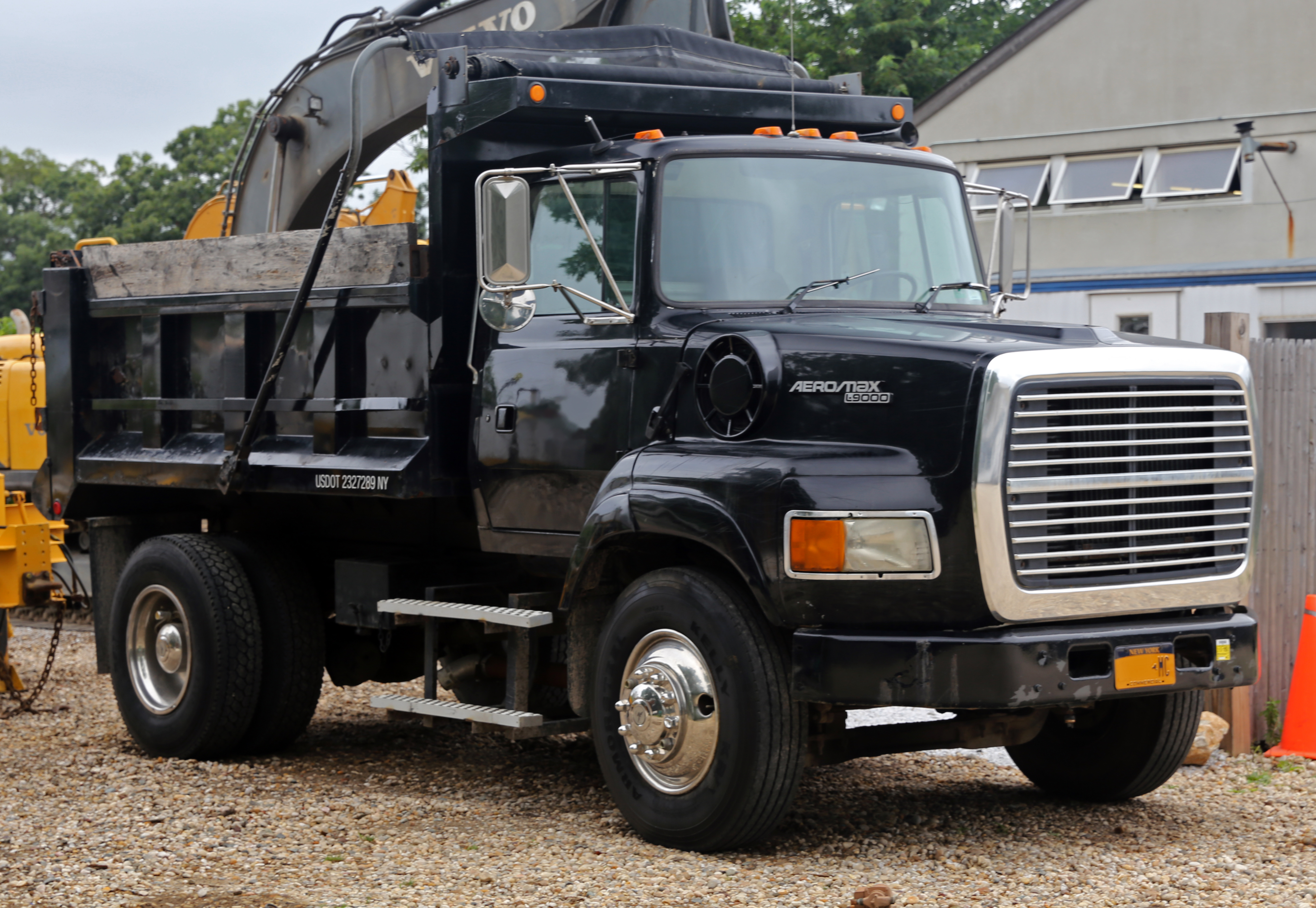 A 1995 Ford L9000 AeroMax short wheelbase dump truck, looking all spiffy in black.